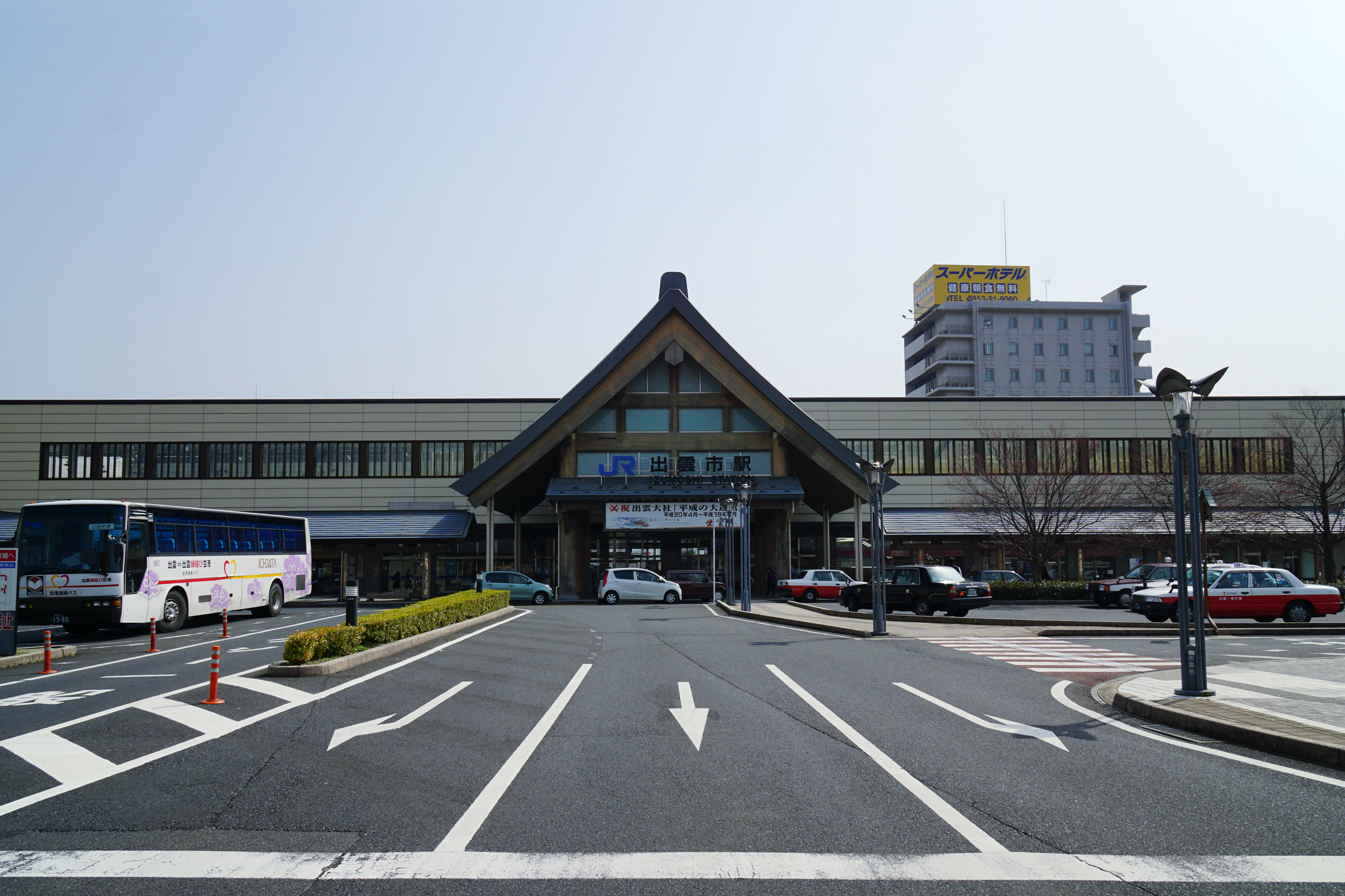 Izumoshi_Station in Izumo, Shimane prefecture, Japan